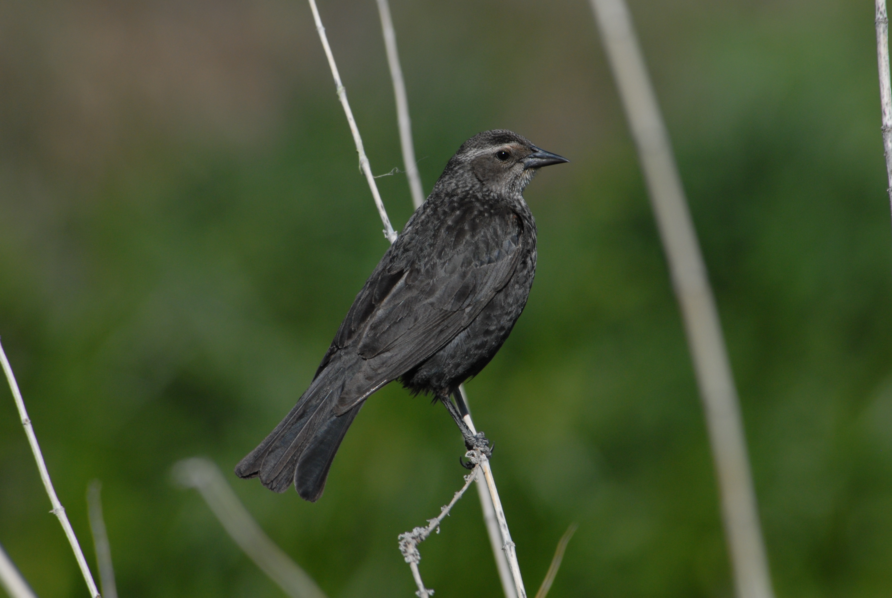 Tricolored blackbird female, Agelaius tricolor